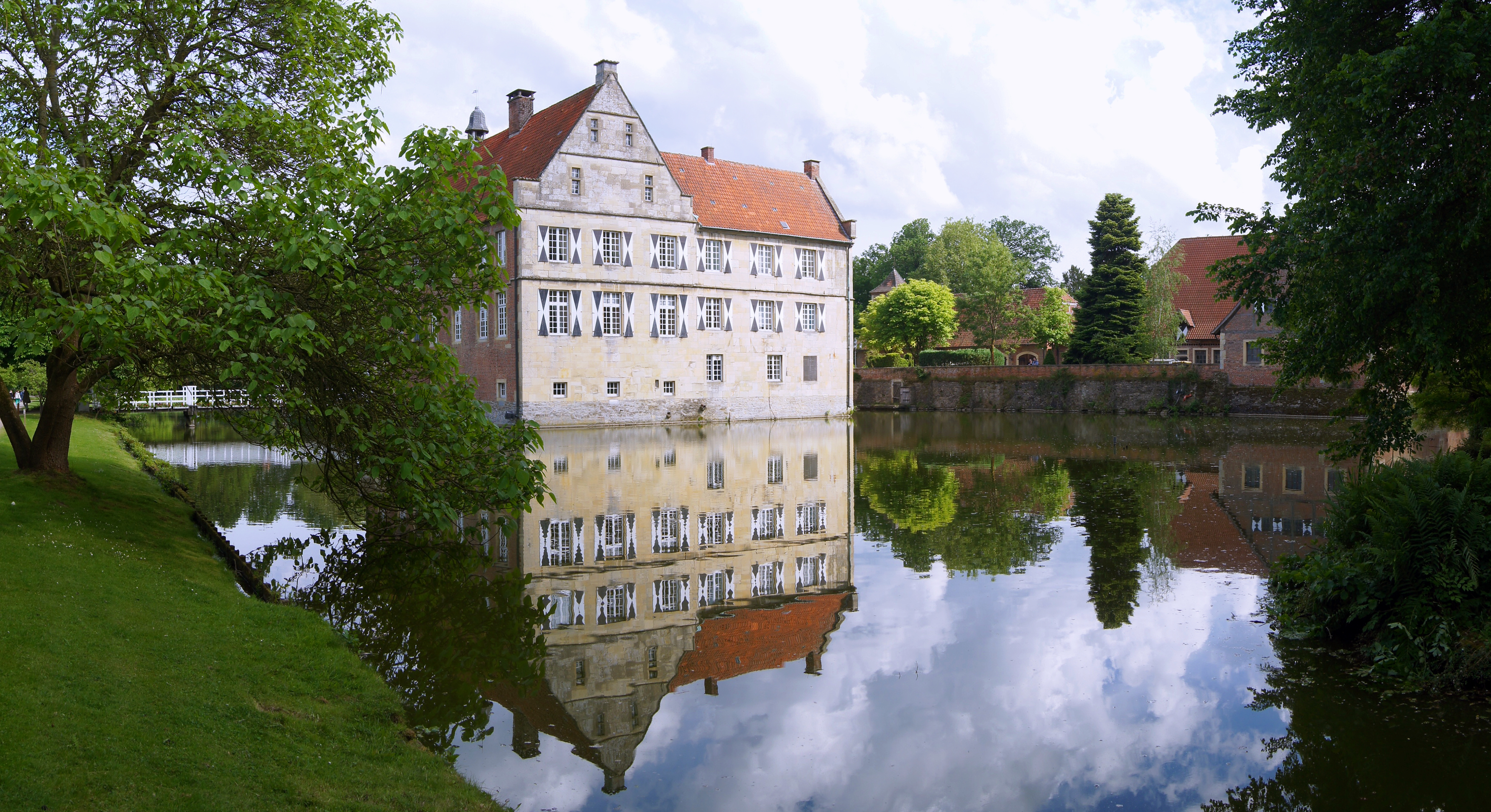 Burg Hülshoff is a water castle in the region of Münster. It is the birthplace of the poetesse Annette von Droste-Hülshoff (1797-1848).